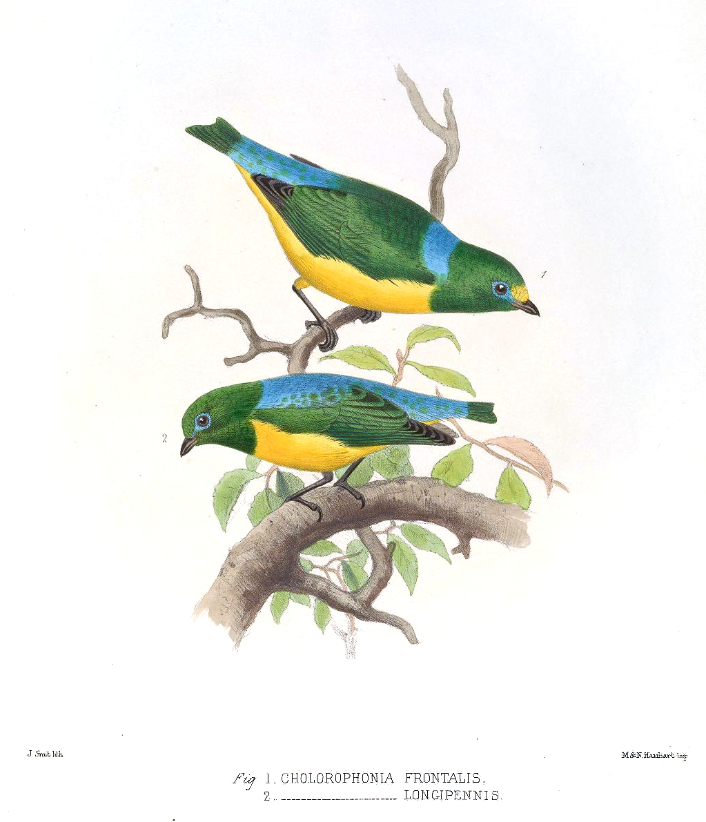 Chlorophonia frontalis & C. longipennis